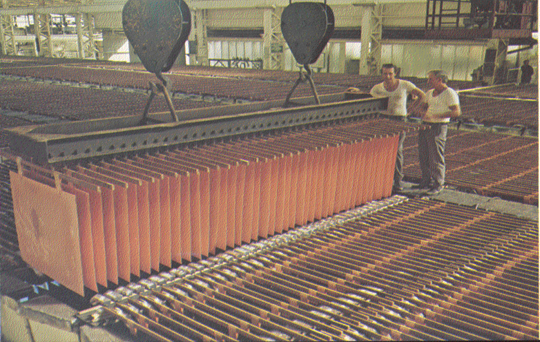 This photograph shows a rack of copper cathode starter sheets hanging from a crane in a copper refinery. The photograph probably dates from the 1960s or 1970s and shows old technology.